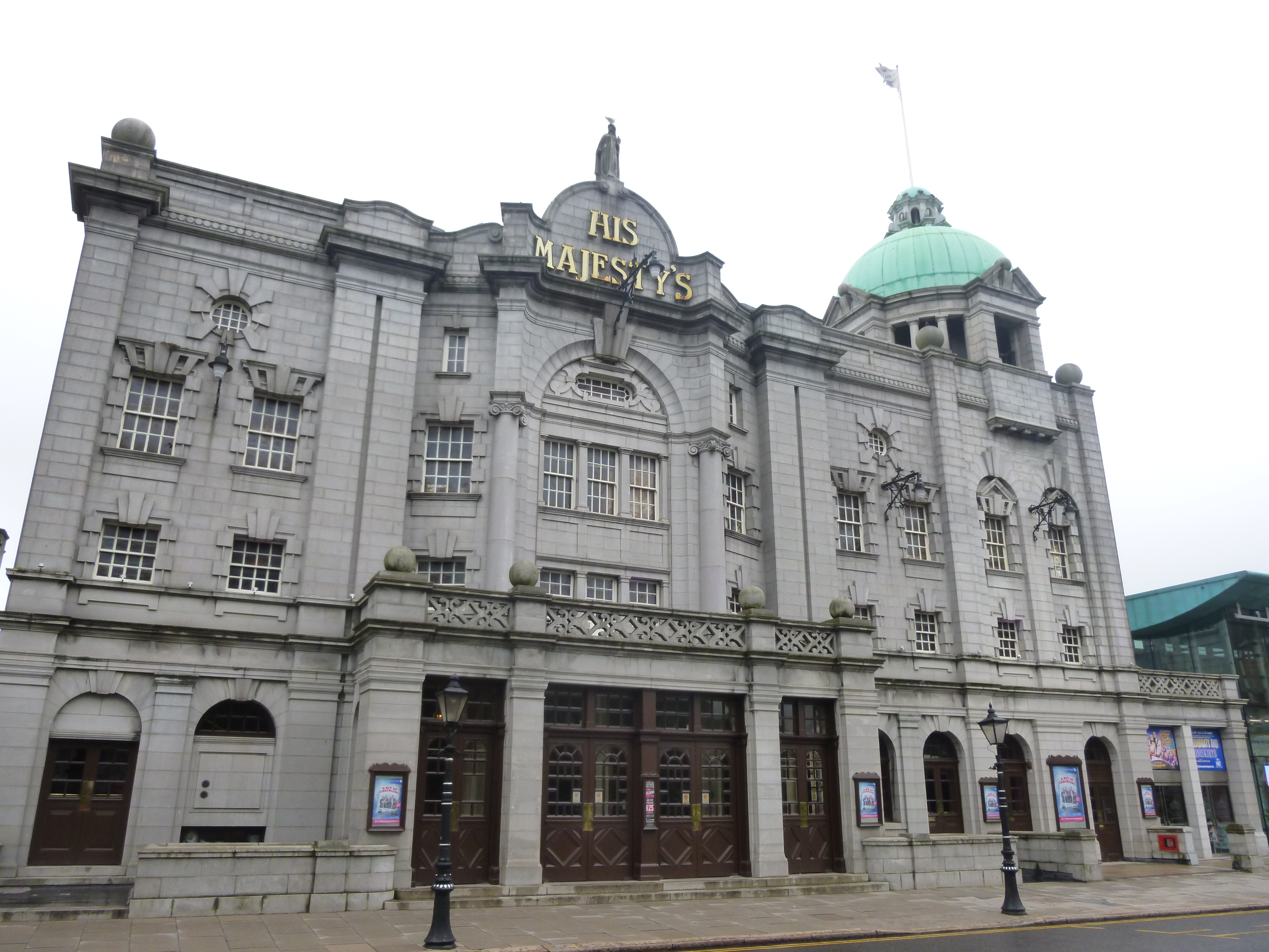 His Majesty's Theatre, Rosemount, Aberdeen